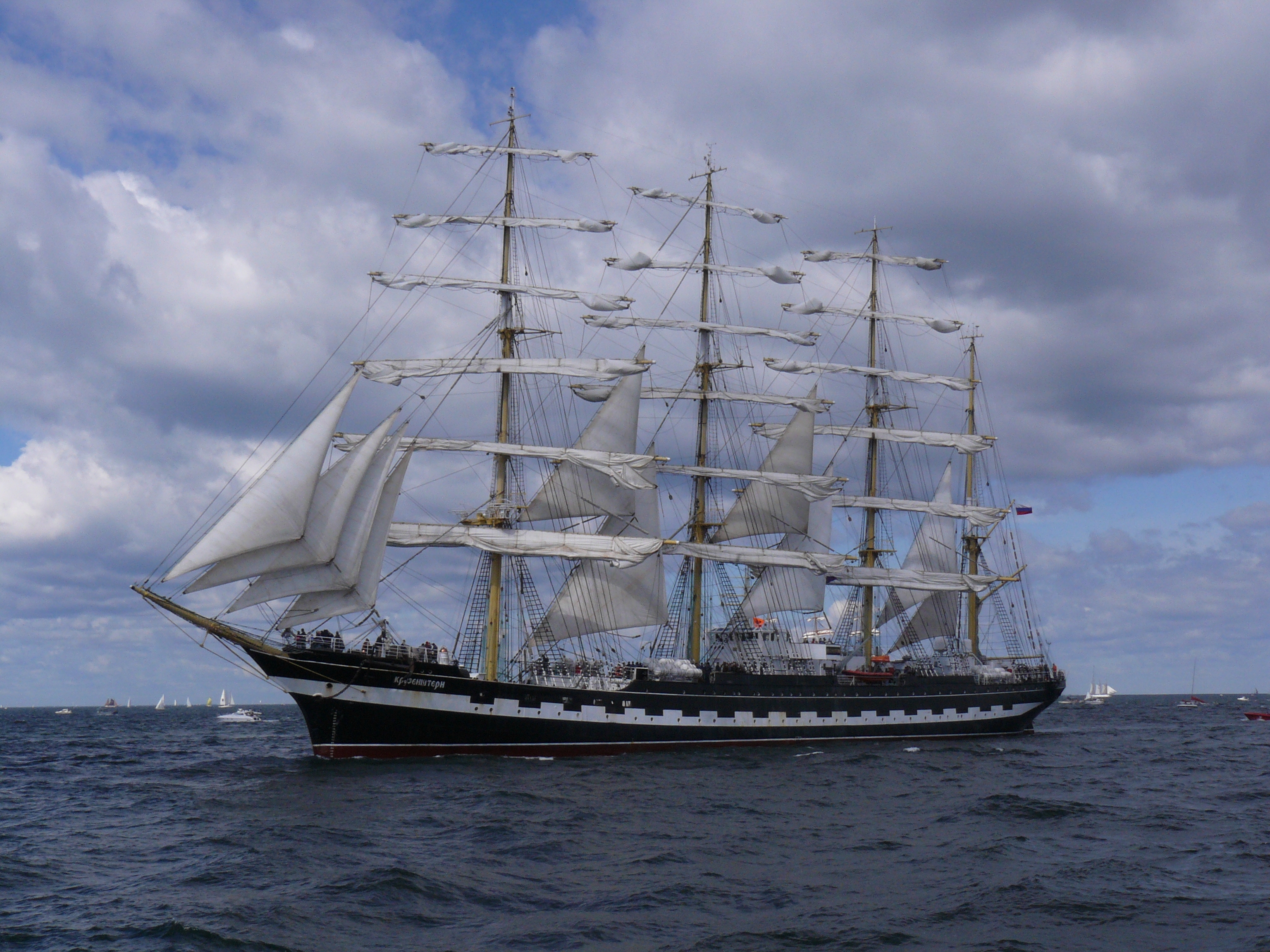 «Крузенштерн» (Kruzenshtern)